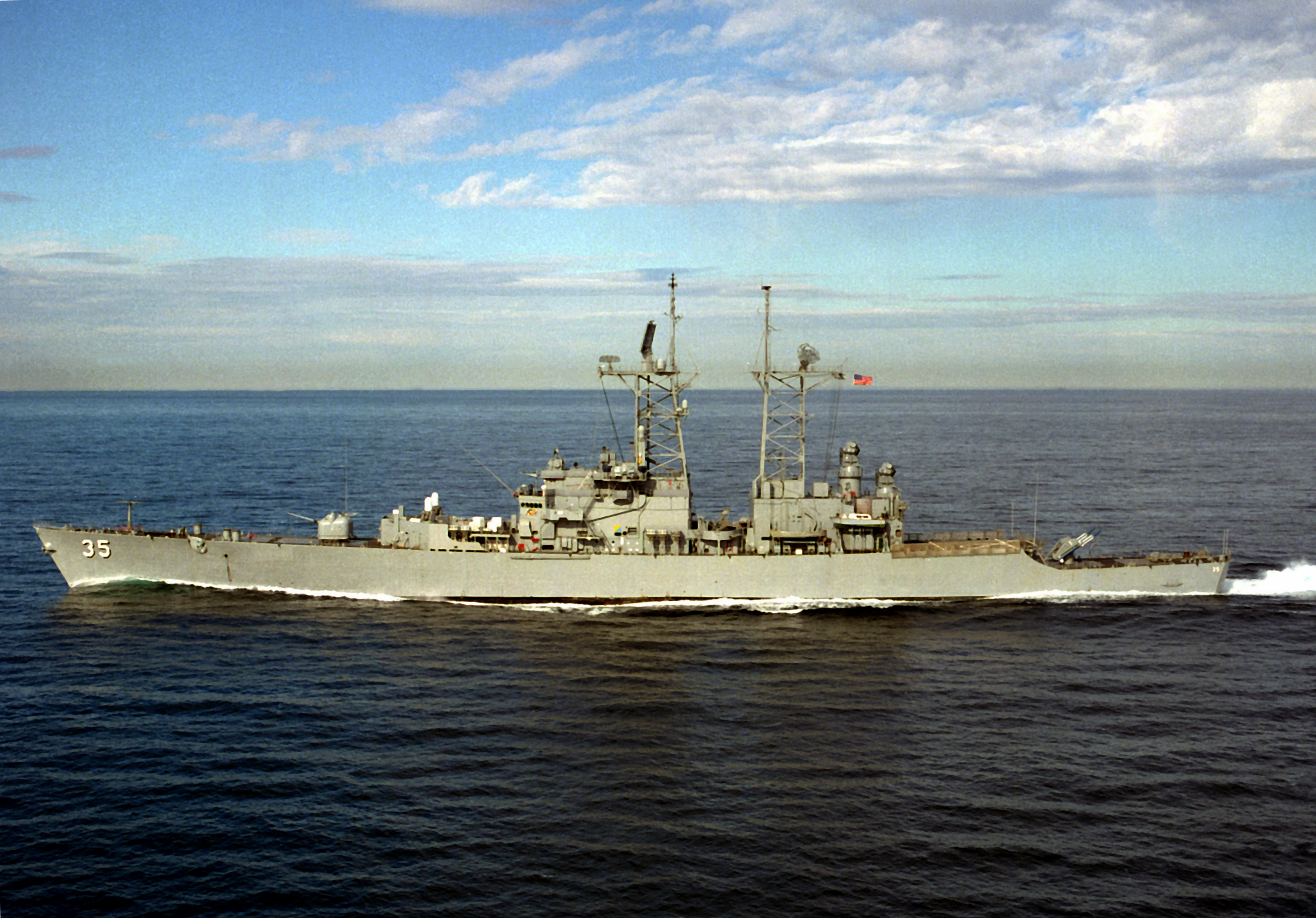 The U.S. Navy guided missile cruiser USS Truxtun (CGN-35) underway in the Pacific Ocean off San Diego (USA) on 3 January 1989.